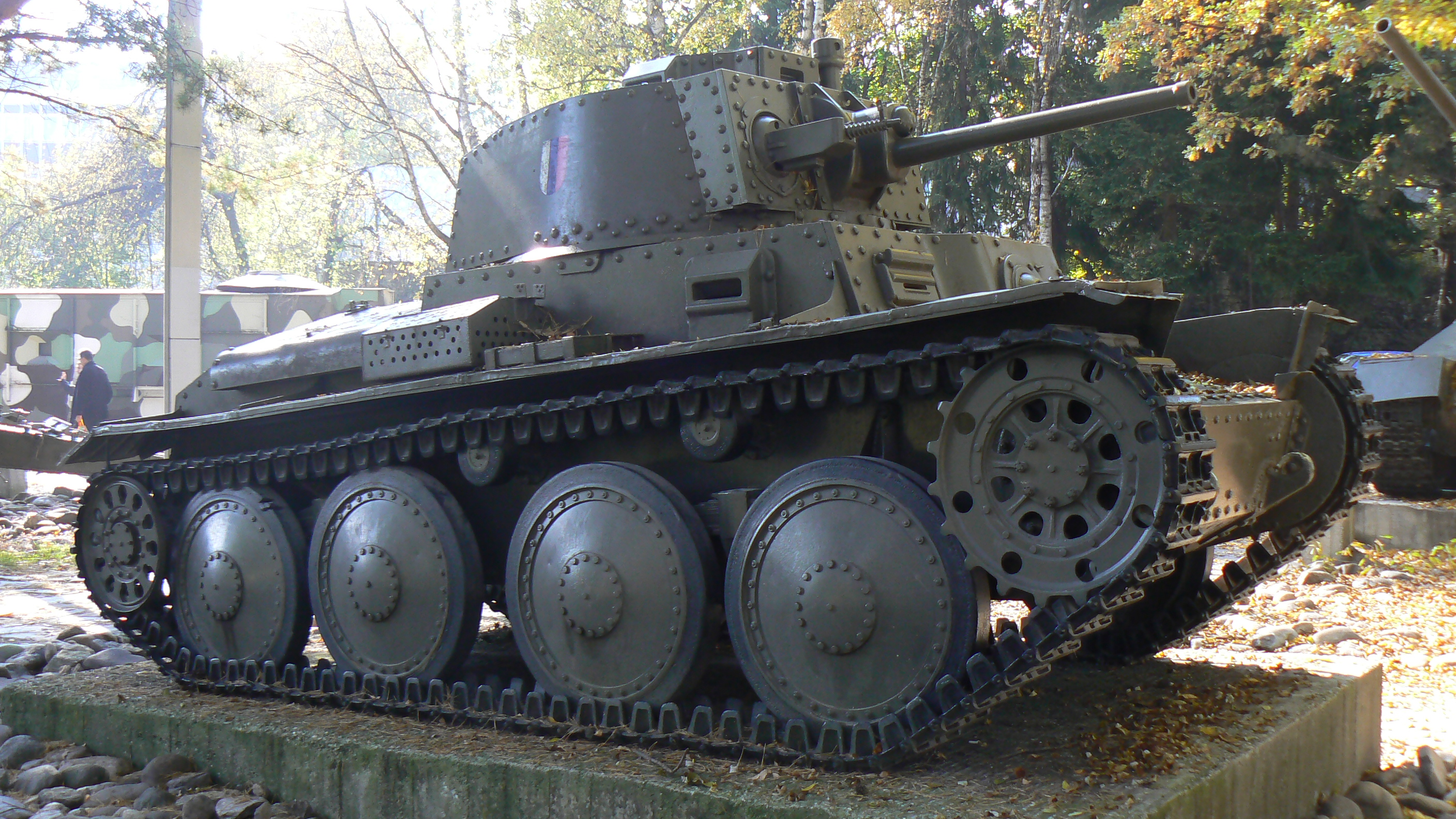 Museum of Slovak National Uprising.